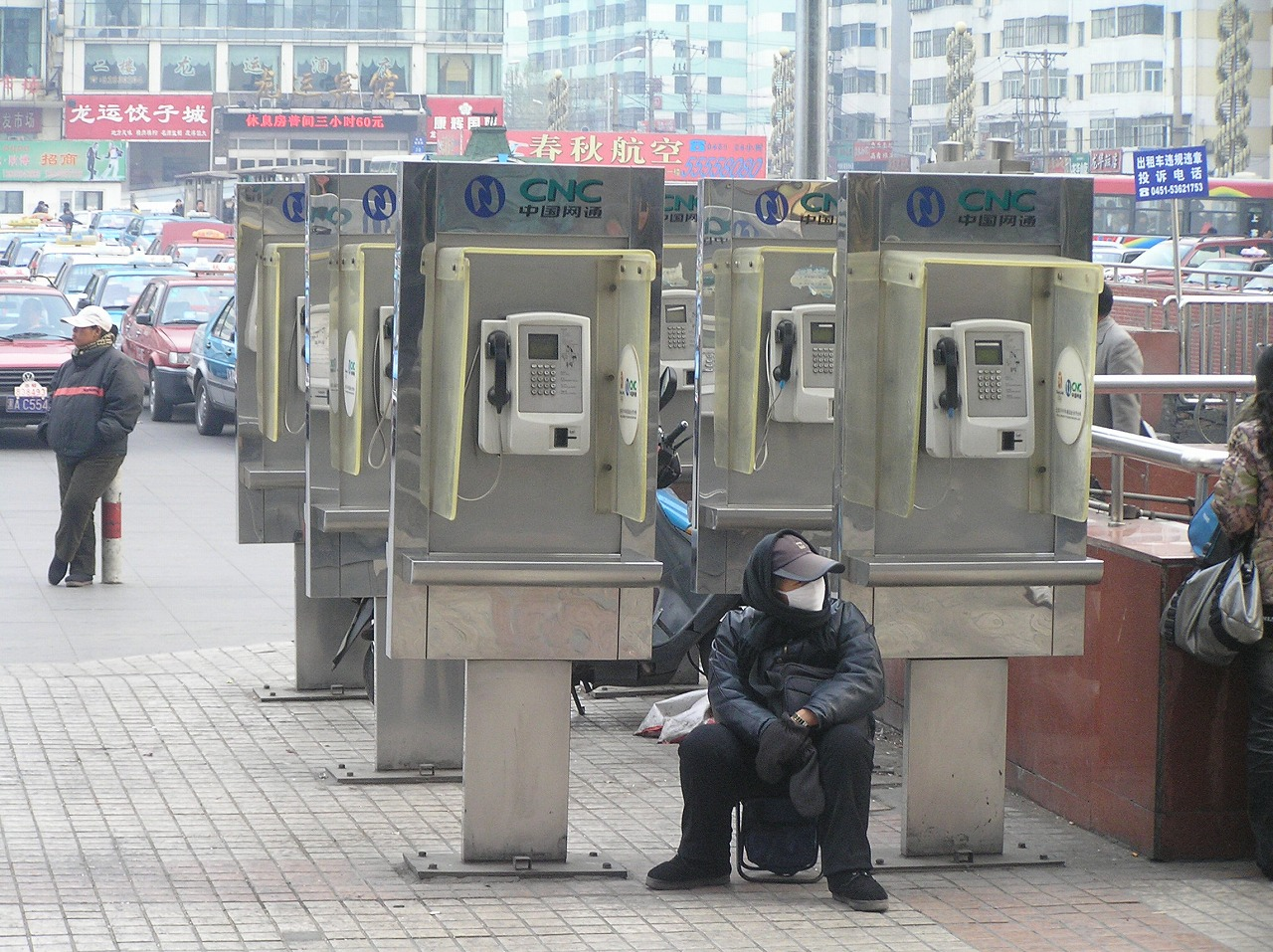 Public telephone,harbin station,china.